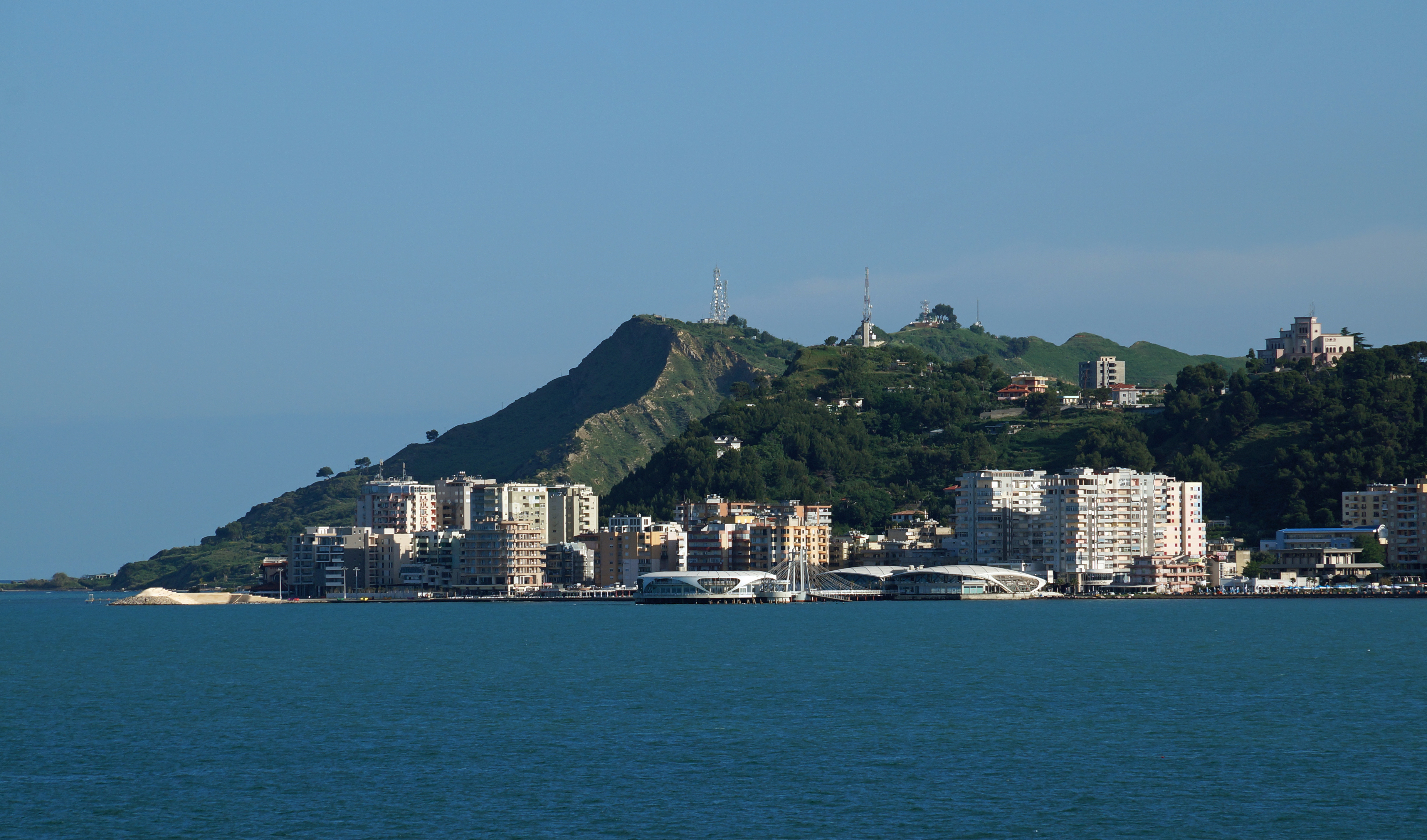 Durrës seen from the sea